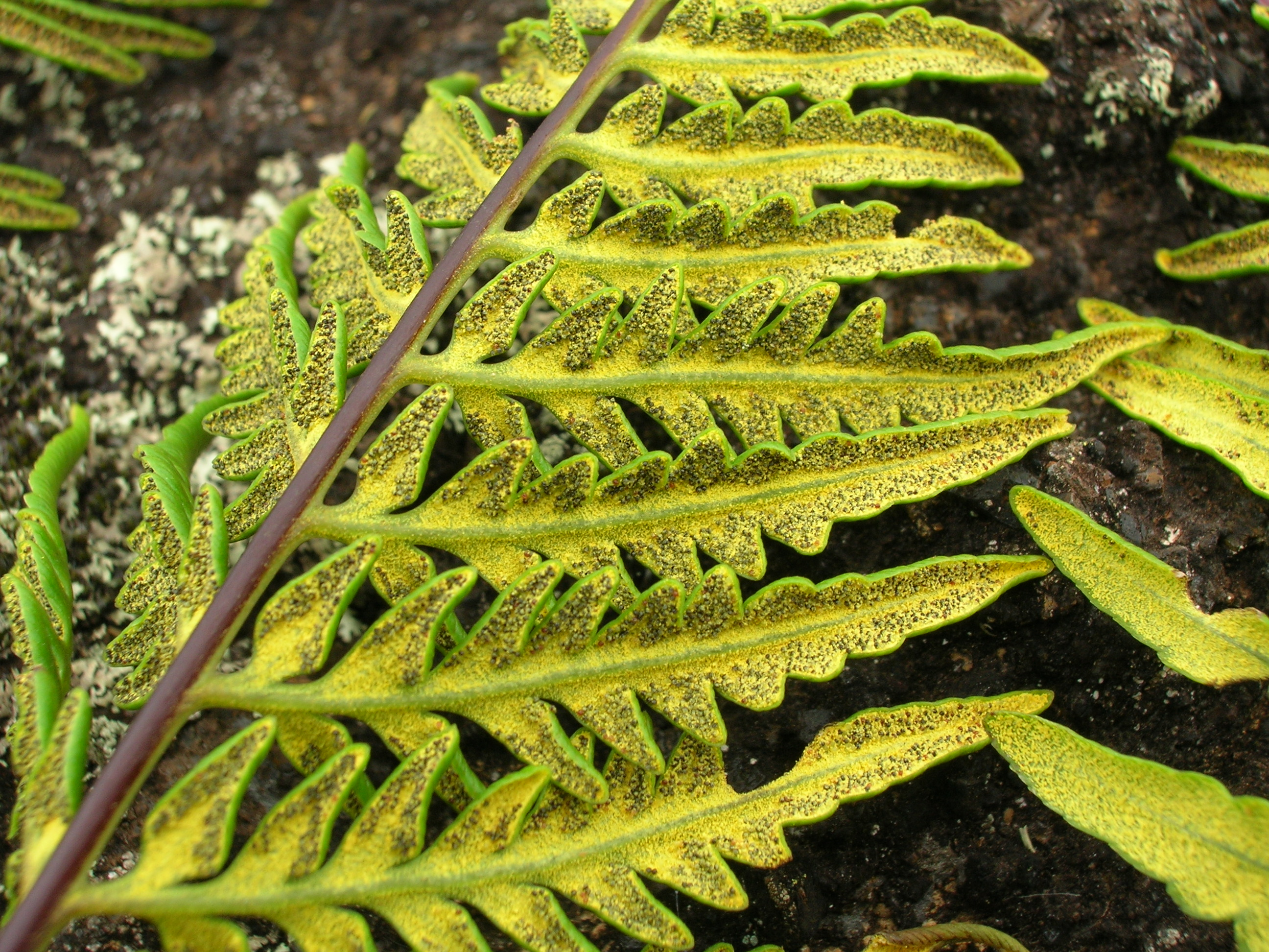 Pityrogramma austroamericana (sori). Location: Maui, Pohakuokala Gulch